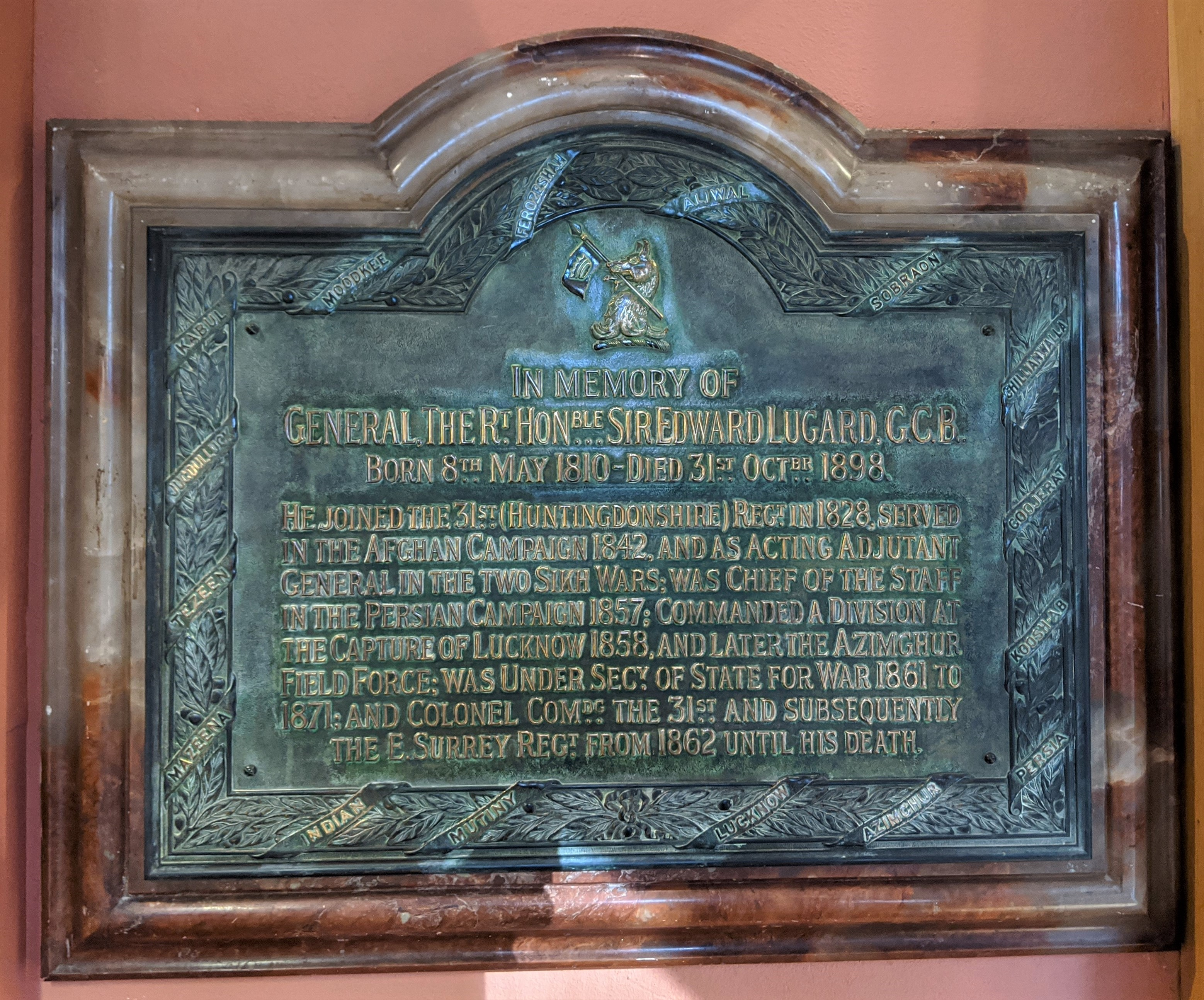 Memorial plaque to General Sir Edward Lugard, Colonel of the 31st Regiment of Foot and the East Surrey Regiment (1862-98), All Saints Church, Kingston upon Thames, Surrey